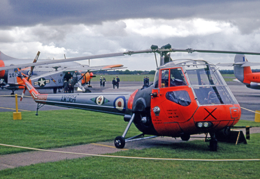 Saunders-Roe Skeeter AOP.12 XM564 of the RAF Central Flying School at RAF Tern Hill in 1962.